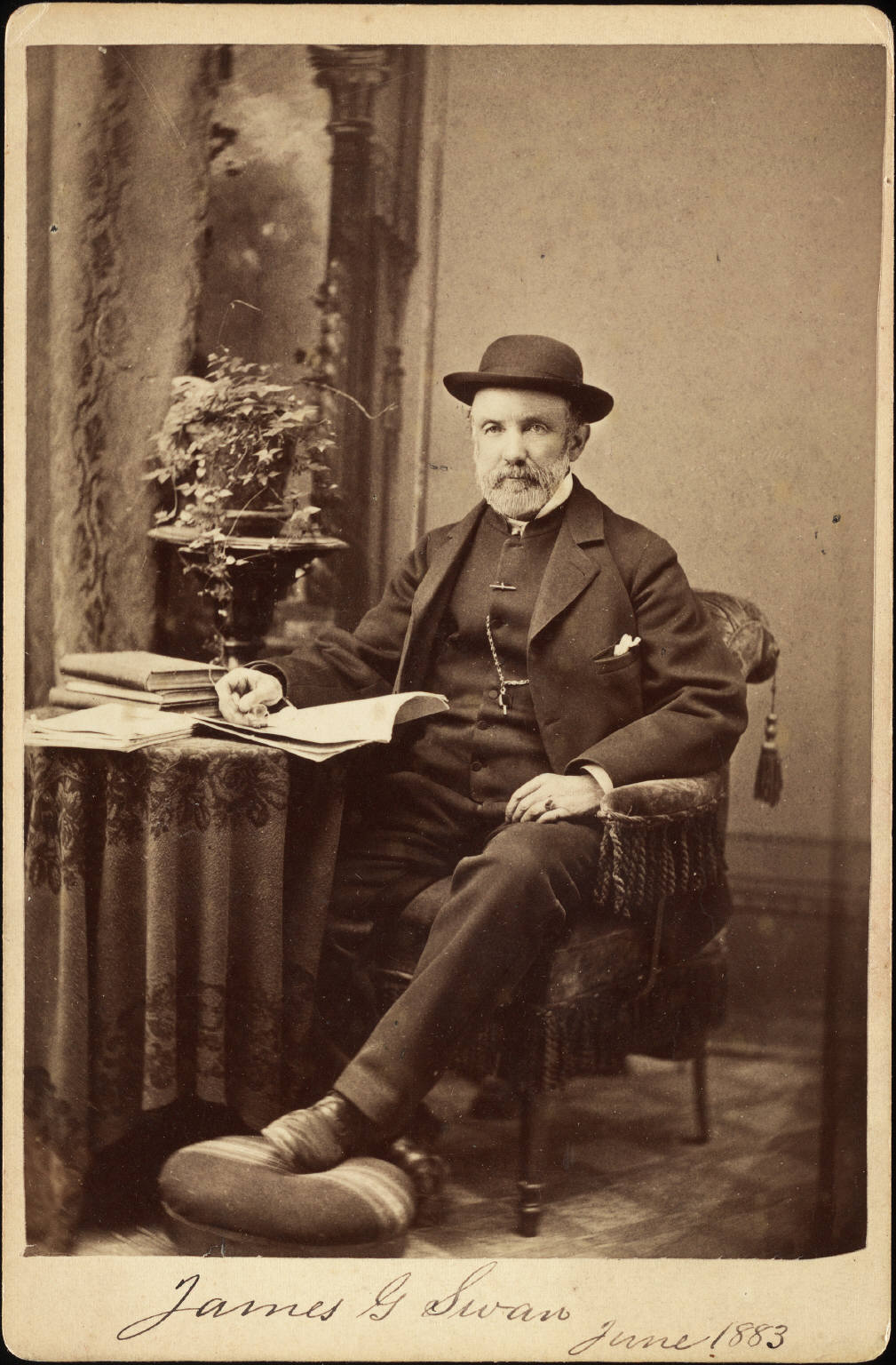 Black-and-white photographic portrait of Indian agent James G. Swan by Spencer & Hastings, taken just before departing the Queen Charlotte Islands. Carte-de-visite. Franz R. and Kathryn M. Stenzel Collection of Western American Art, Yale Collection of Western Americana, Beinecke Rare Book and Manuscript Library. Courtesy of Yale University, New Haven, Connecticut.